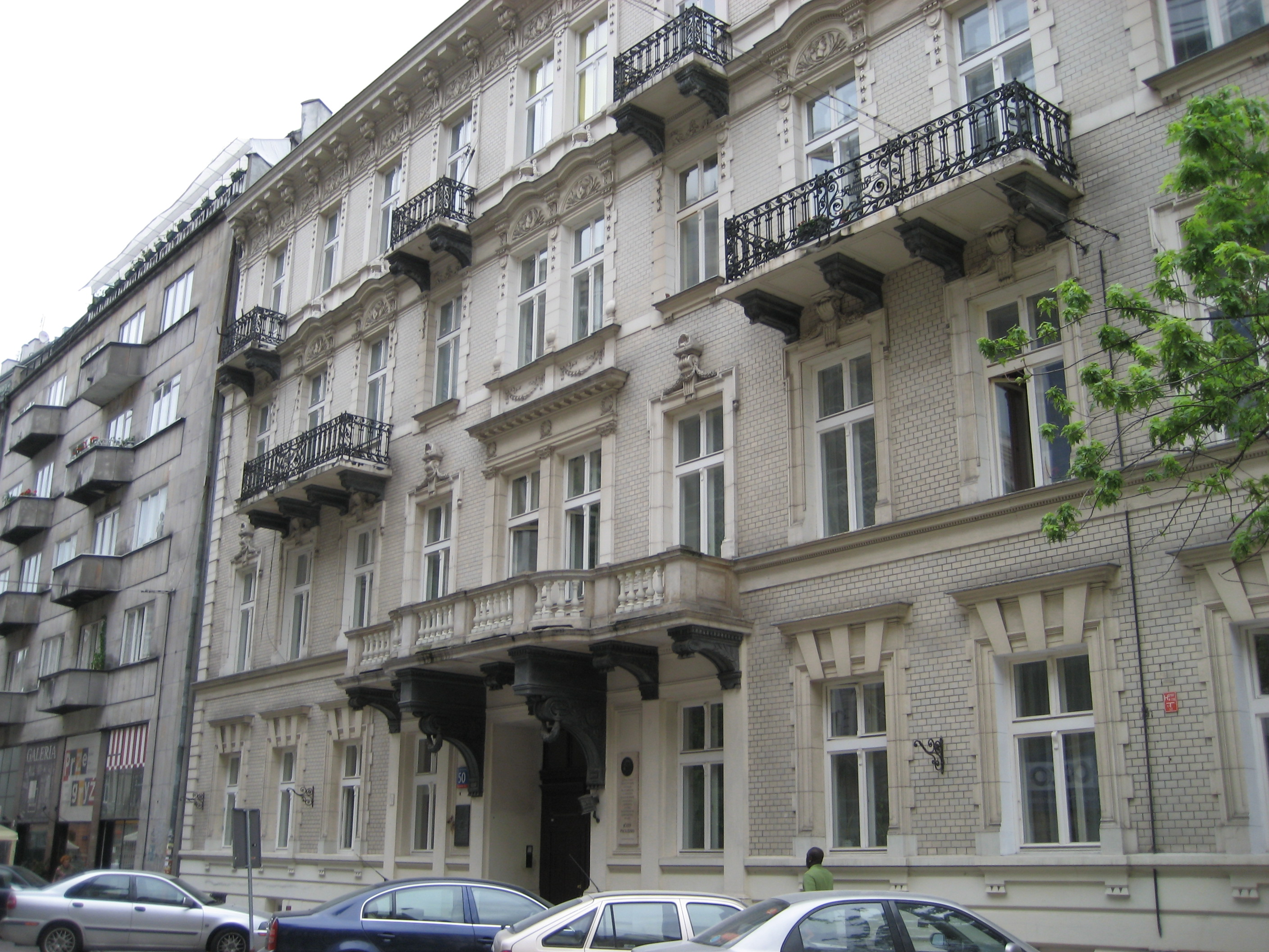 Ulica Mokotowska 50, Warsaw, where Jozef Pilsudski stayed in November 1918 after his return to Poland from imprisonment at Magdeburg.